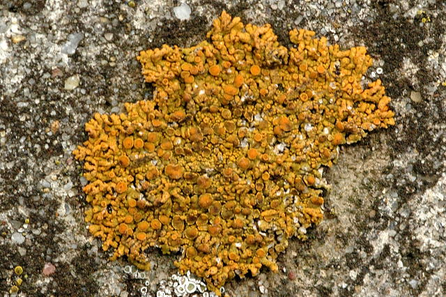 Picture taken in Commanster, Belgian High Ardennes . Species: Caloplaca saxicola